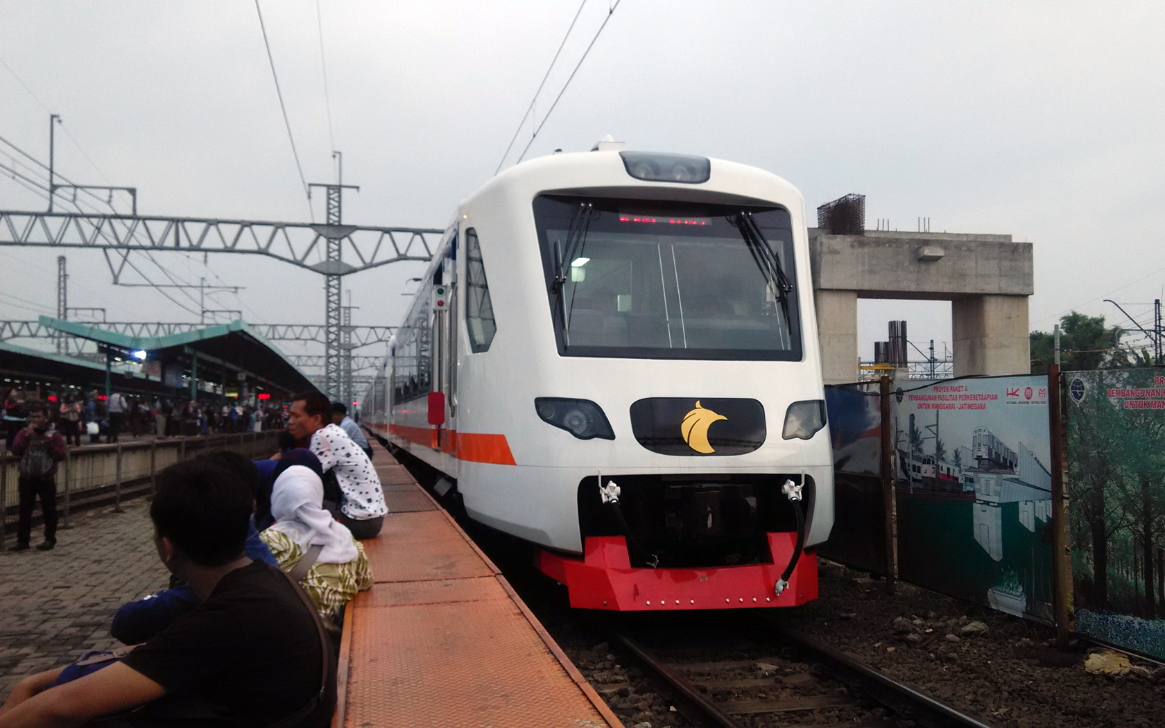 An airport rail link electric train owned by Railink, a subsidiary of Kereta Api Indonesia and Angkasa Pura II, resting on track 7 in Manggarai station, Jakarta after a test run before being shunted into Manggarai workshop, October 2017. Railink ordered ten completely knocked-down (CKD) 6-car sets of electric multiple unit to Bombardier in 2016. All of them assembled in Industri Kereta Api's workshop in Madiun, East Java, to meet the government rules of the usage of local components. These trains are then forwarded to Jakarta by rail, hauled with a diesel engine. The Railink's airport rail link service is branded "Airport Railink Services" or ARS. The first ARS service was inaugurated in 2013 and serves Medan City-Kualanamu International Airport route. The Medan's ARS is served by four 4-car sets of diesel-electric multiple unit made by South Korea's Woojin Industries. Jakarta's ARS is the second to be operated starting in 2018, as a part of the preparation of the 2018 Asian Games.